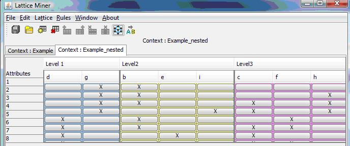 Editing Binary context in LatticeMiner tool.